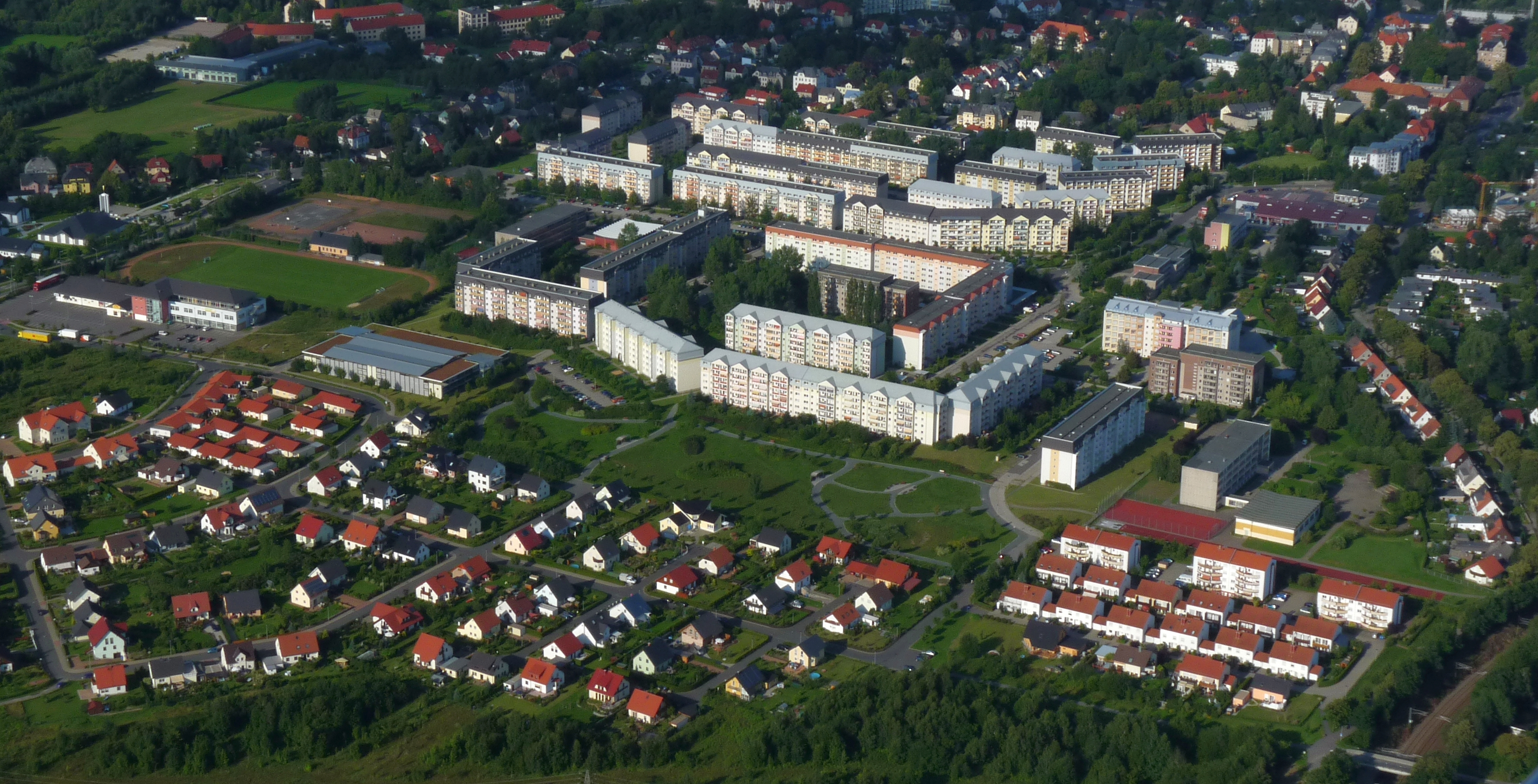 Friedeburg a district of Freiberg in Saxony